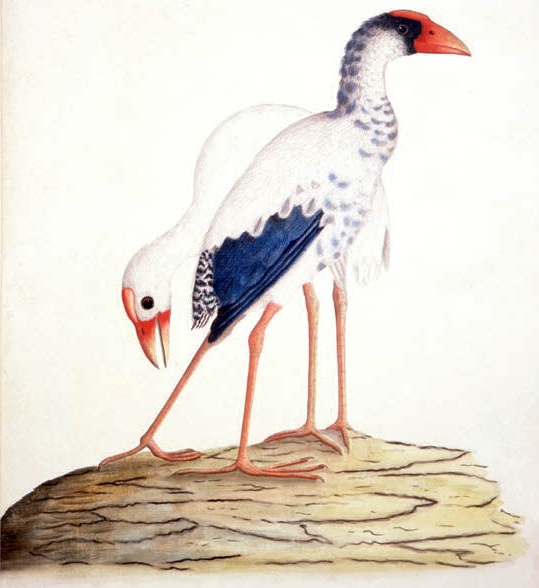 Painting of Porphyrio albus, about 1790. Stored in Alexander Turnbull Library